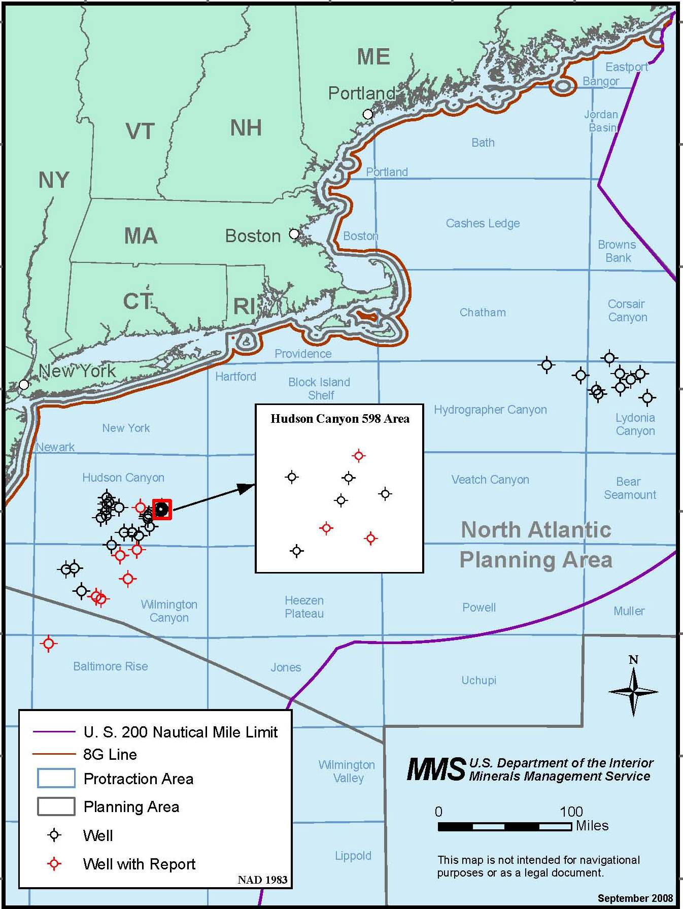 Map showing exploratory well drilled for oil and gas off the US north Atlantic coast